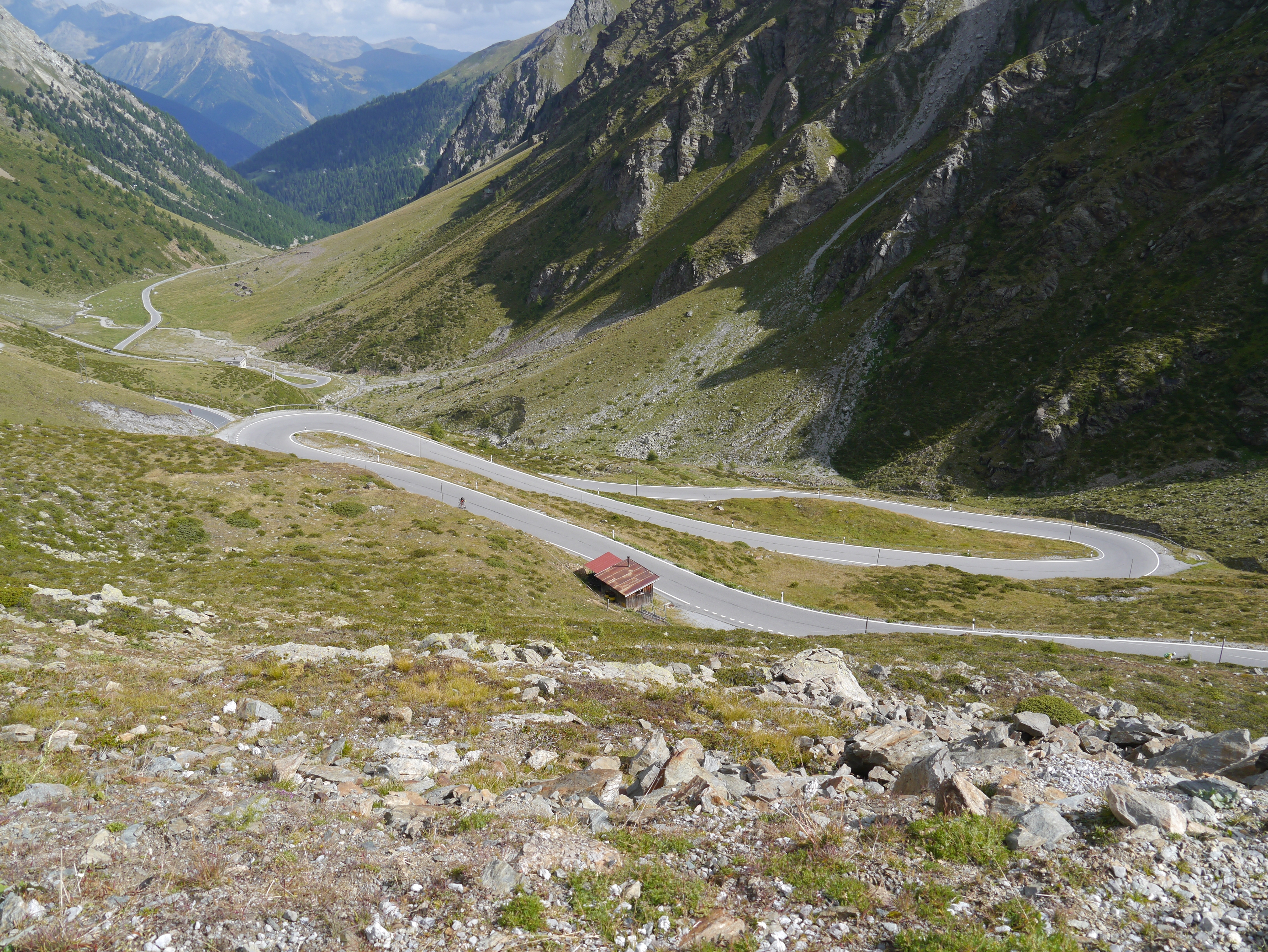 Umbrail Pass, Canton of Graubünden, Switzerland